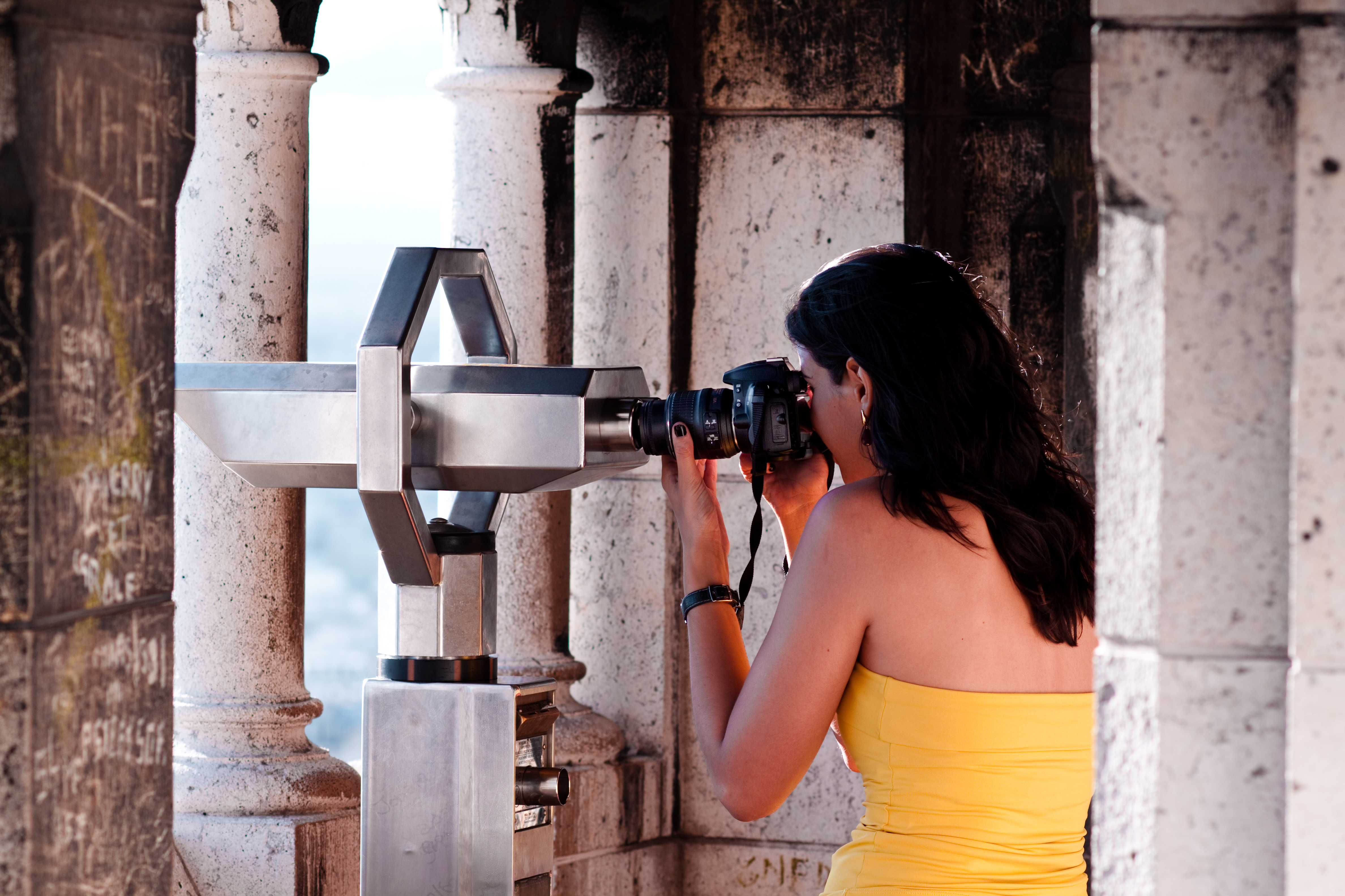 A woman taking picture with the help of a telescope.